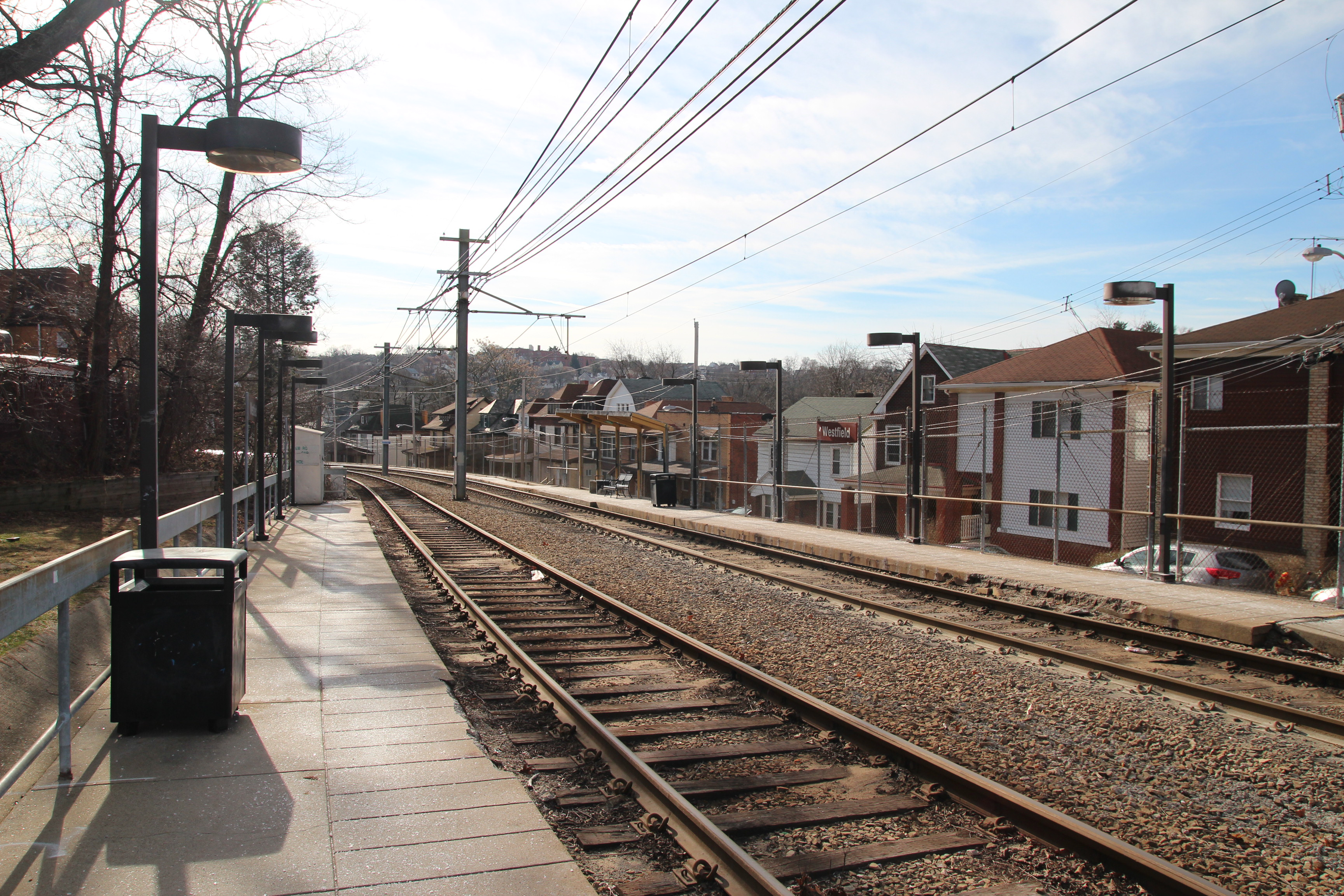 Westfield station, looking north.